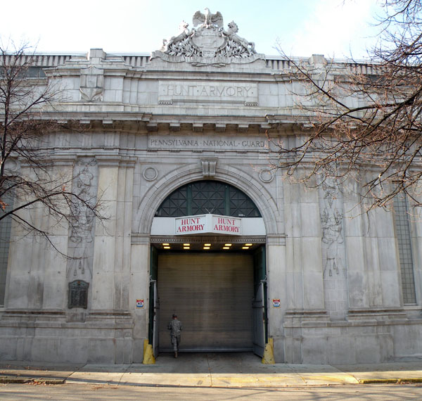 Picture of Hunt Armory (also known as Pittsburgh Armory) located at 324 Emerson Street in the Shadyside neighborhood of Pittsburgh, Pennsylvania, on December 4, 2009. The armory was built in 1916, and named after Captain Alfred E. Hunt (1855-1899). It is listed on the National Register of Historic Places. Architects: W.G. Wilkins Co., Dawson Construction Co. Architectural style: Classical Revival.